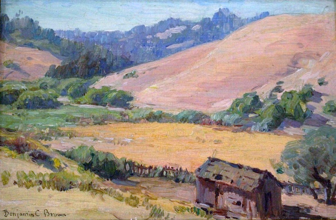 Brown Hills on the Russian River by Benjamin Chambers Brown, 1914, oil on panel, 5.75 x 8.75 in.